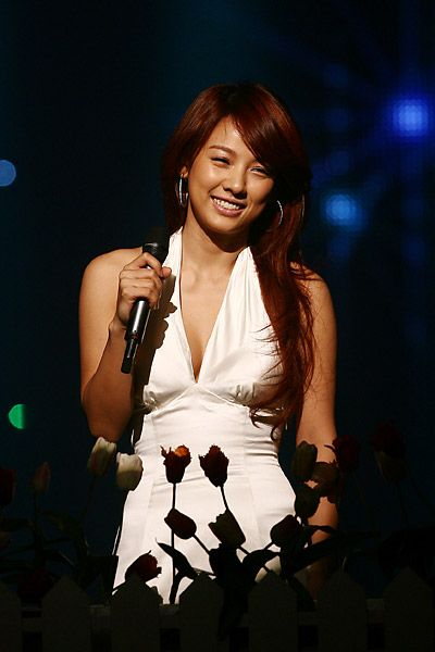 Lee Hyori at SBS Inkigayo in 2007.